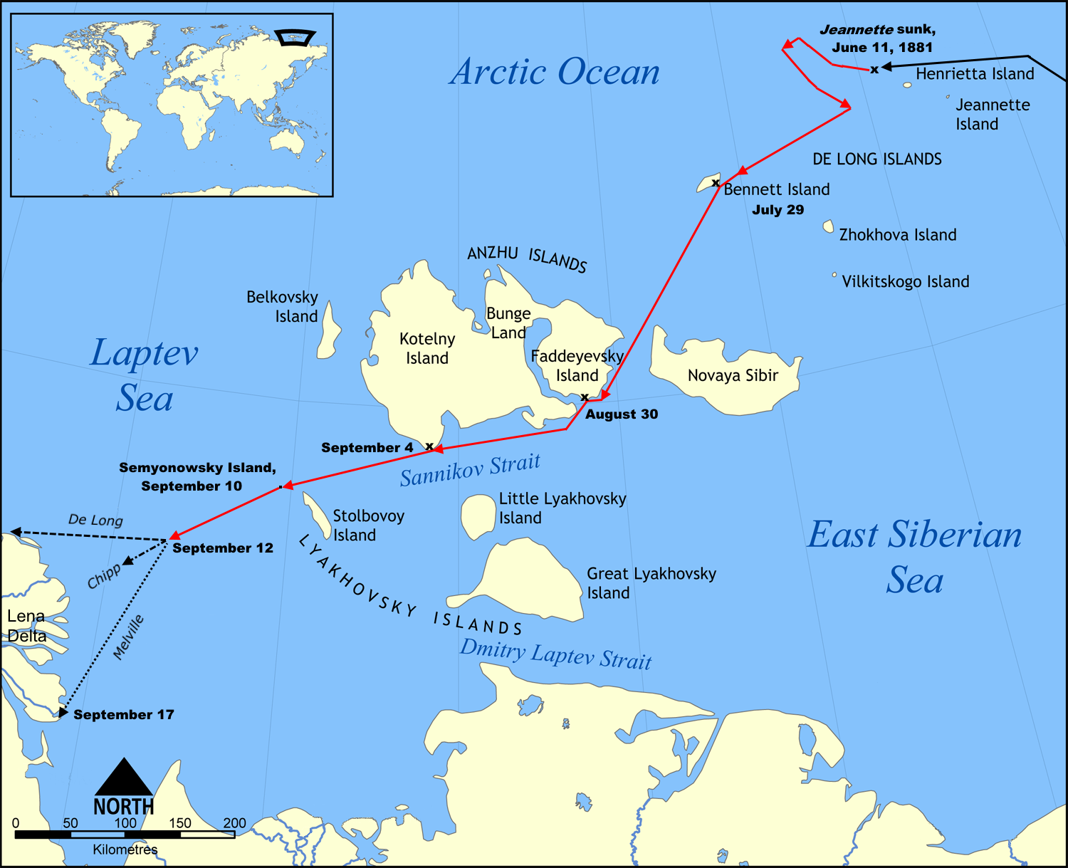 Route(s) of the Jeannette party after leaving the ship, which was crushed by Arctic ice near Henrietta Island in 1881. The party remained together until encountering a storm northeast of the Lena Delta, after which boats headed by De Long, Chipp, and Melville went in separate directions toward the Siberian coast.